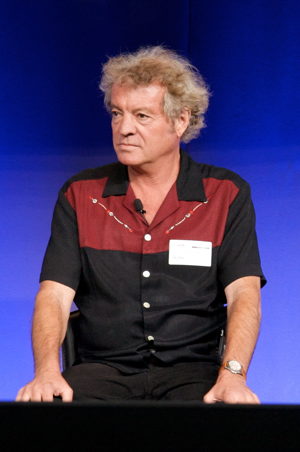 Lawrence Lasker at WarGames 25th anniversary showing